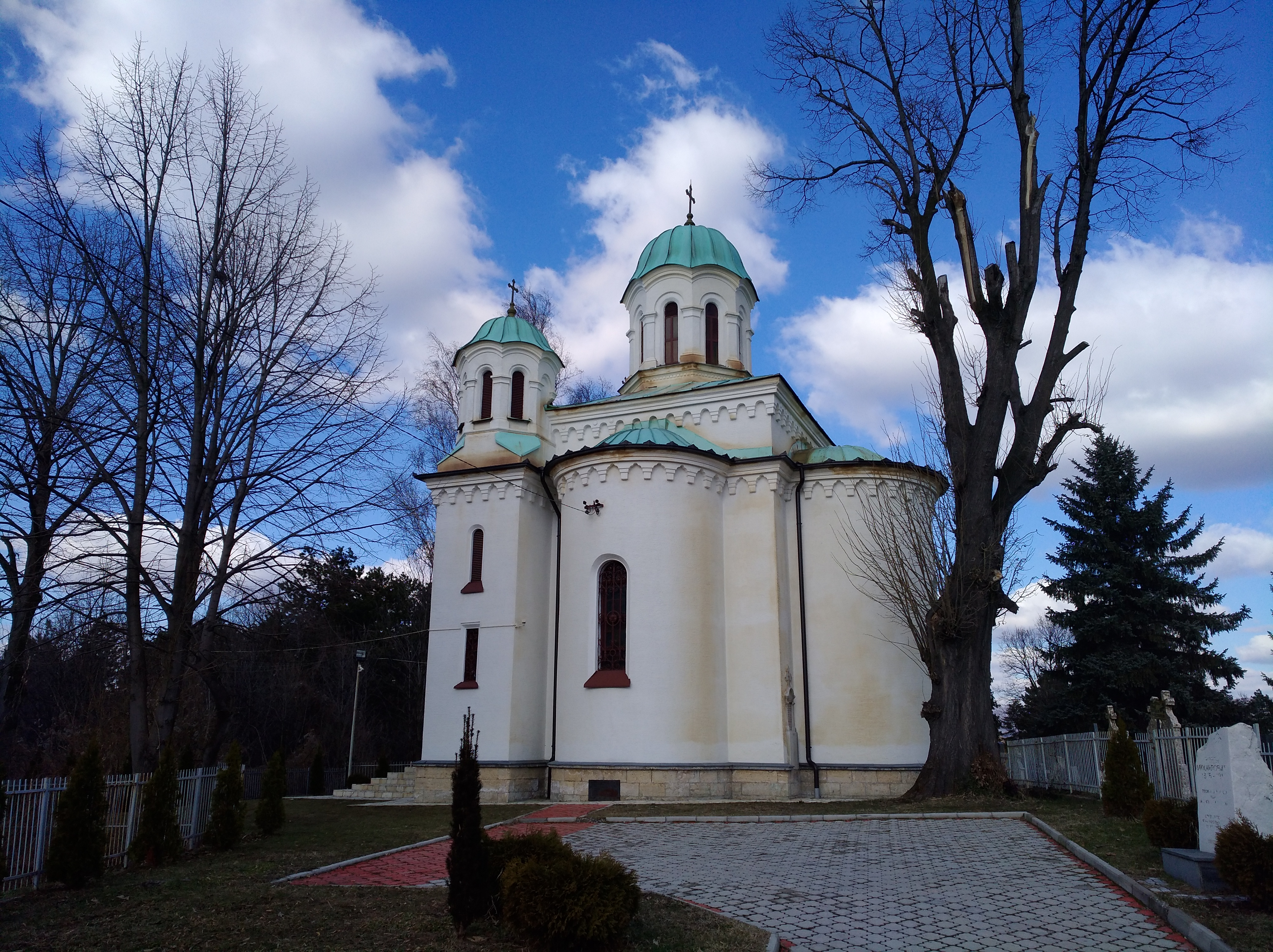 Saint George Serbian Orthodox church in Tuzla, Bosnia and Herzegovina.